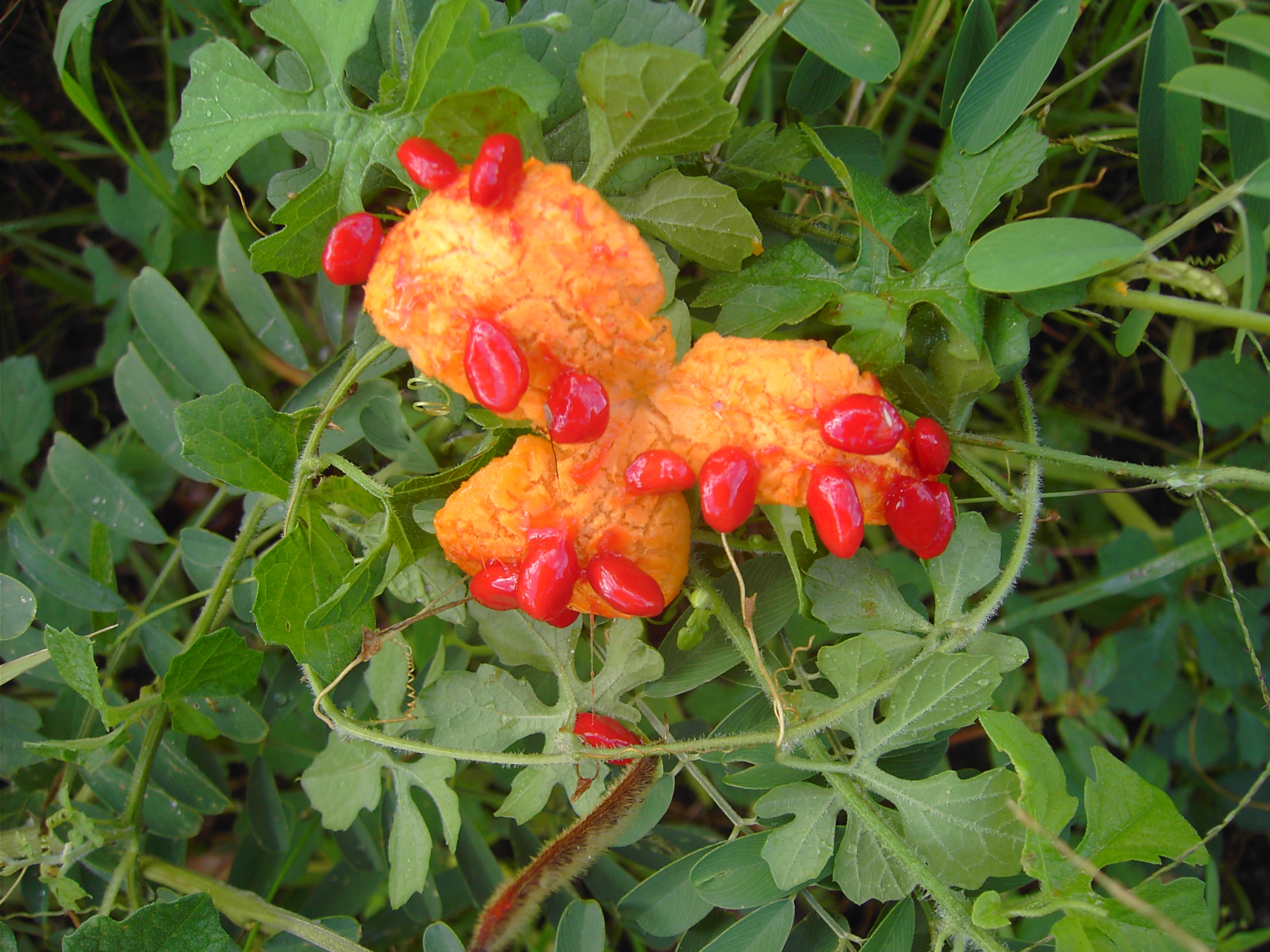 near Palm Tree House, Woodfordhill, Dominica, W.I.